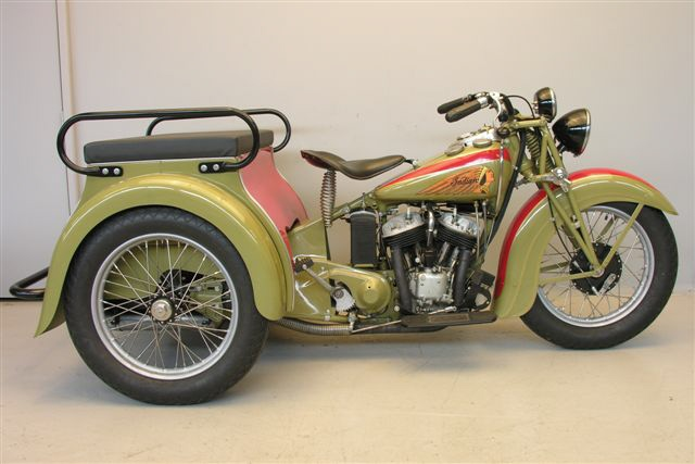 Indian Dispatch Tow motorcycle 1939